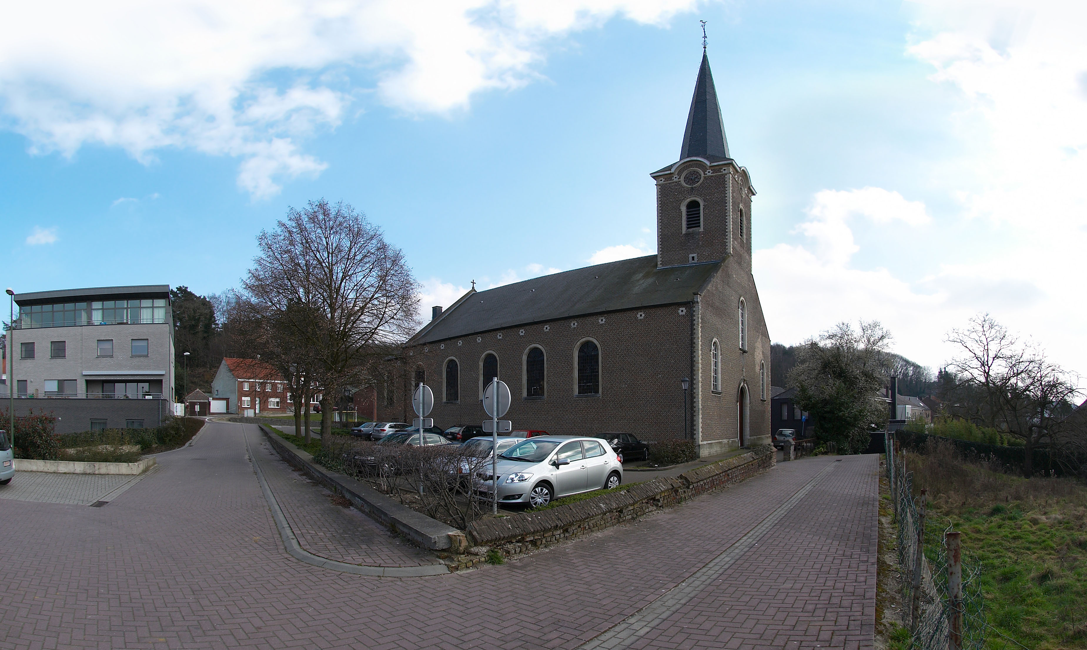 Church in Sint-Joris-Weert (Oud-Heverlee), Belgium. - OpenStreetMap (Info)